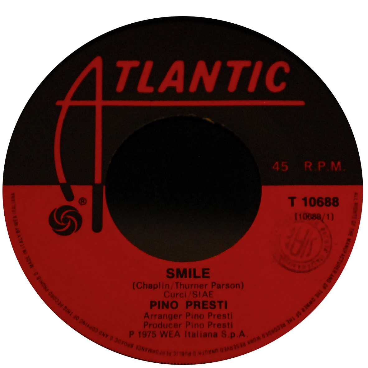 Smile (label)